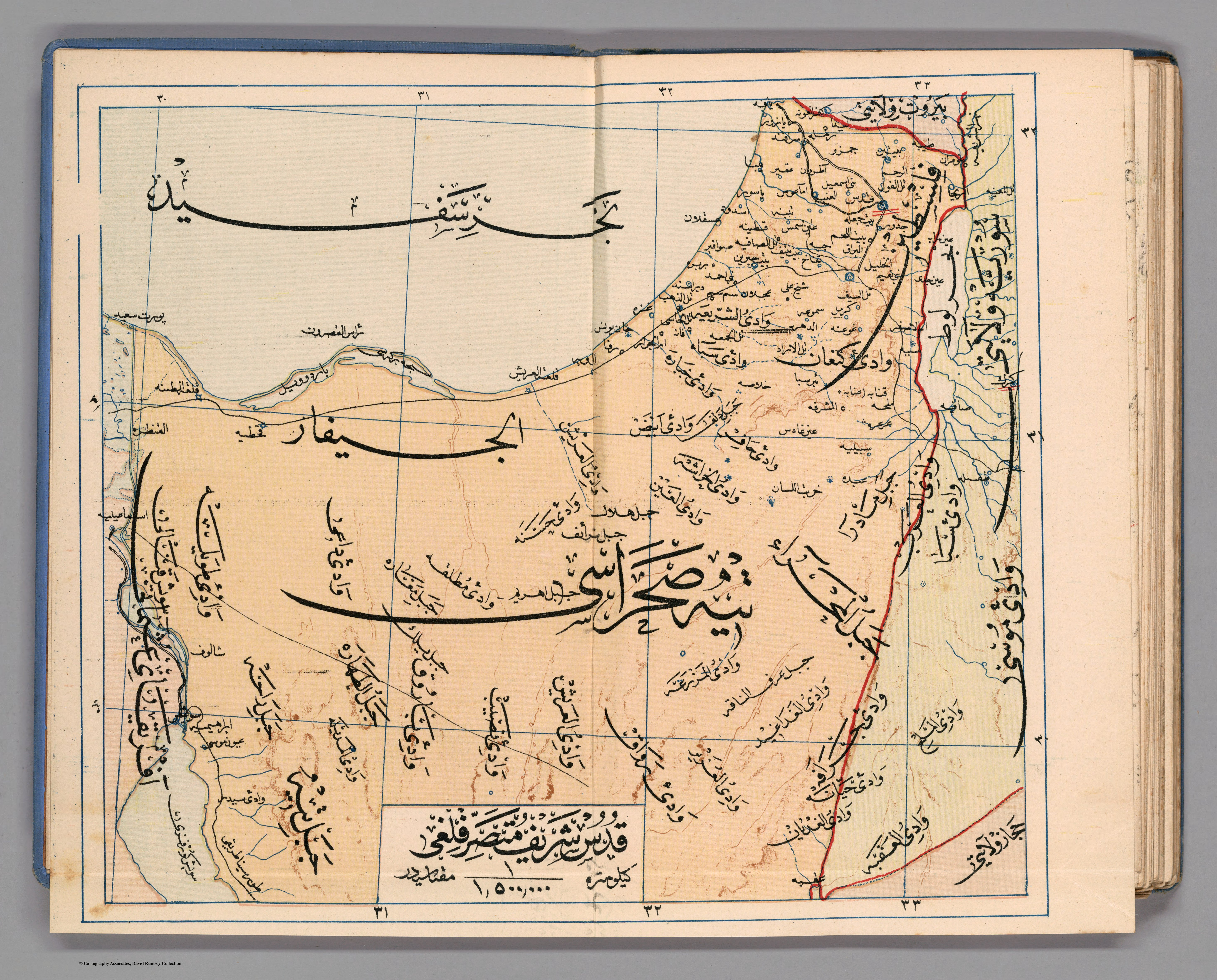 Jerusalem Sanjak — Memalik-i Mahruse-i Şahaneye Mahsus Mukemmel ve Mufassal Atlas (1907)